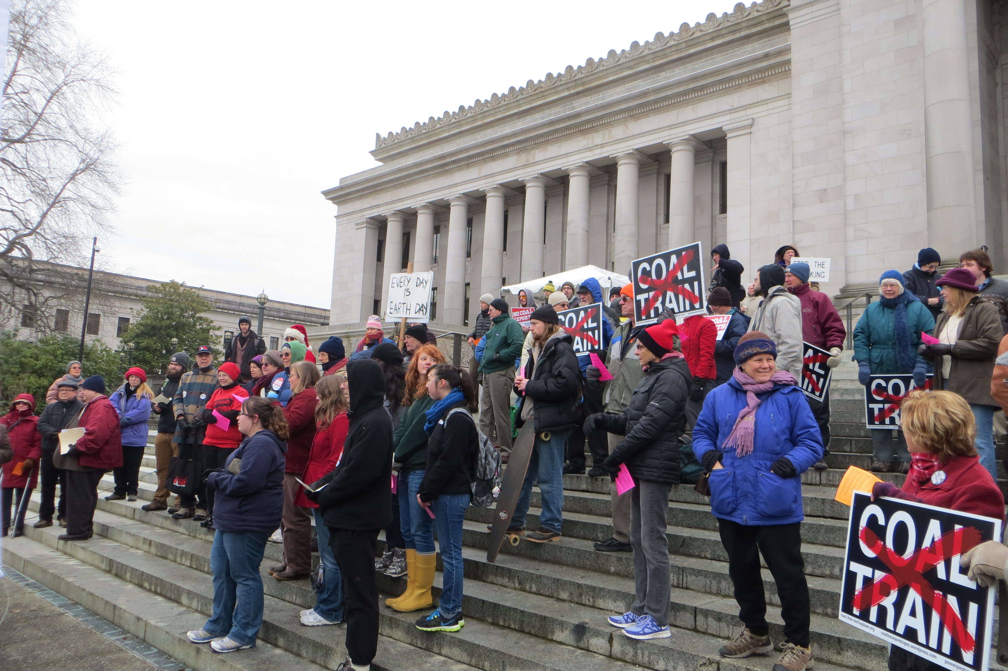 Protest at the Legislative Building in Olympia, Washington.